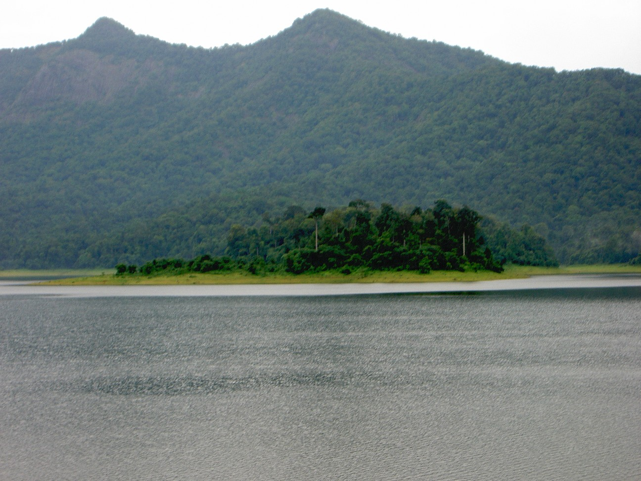 chimmony Dam at its beauty (Picture by (Shihab VK)